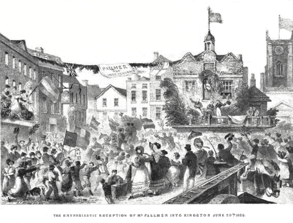 The enthusiastic reception of Mr Pallmer into Kingston upon Thames, June 20 1826.Pallmer had recently been elected MP for Surrey. Old print